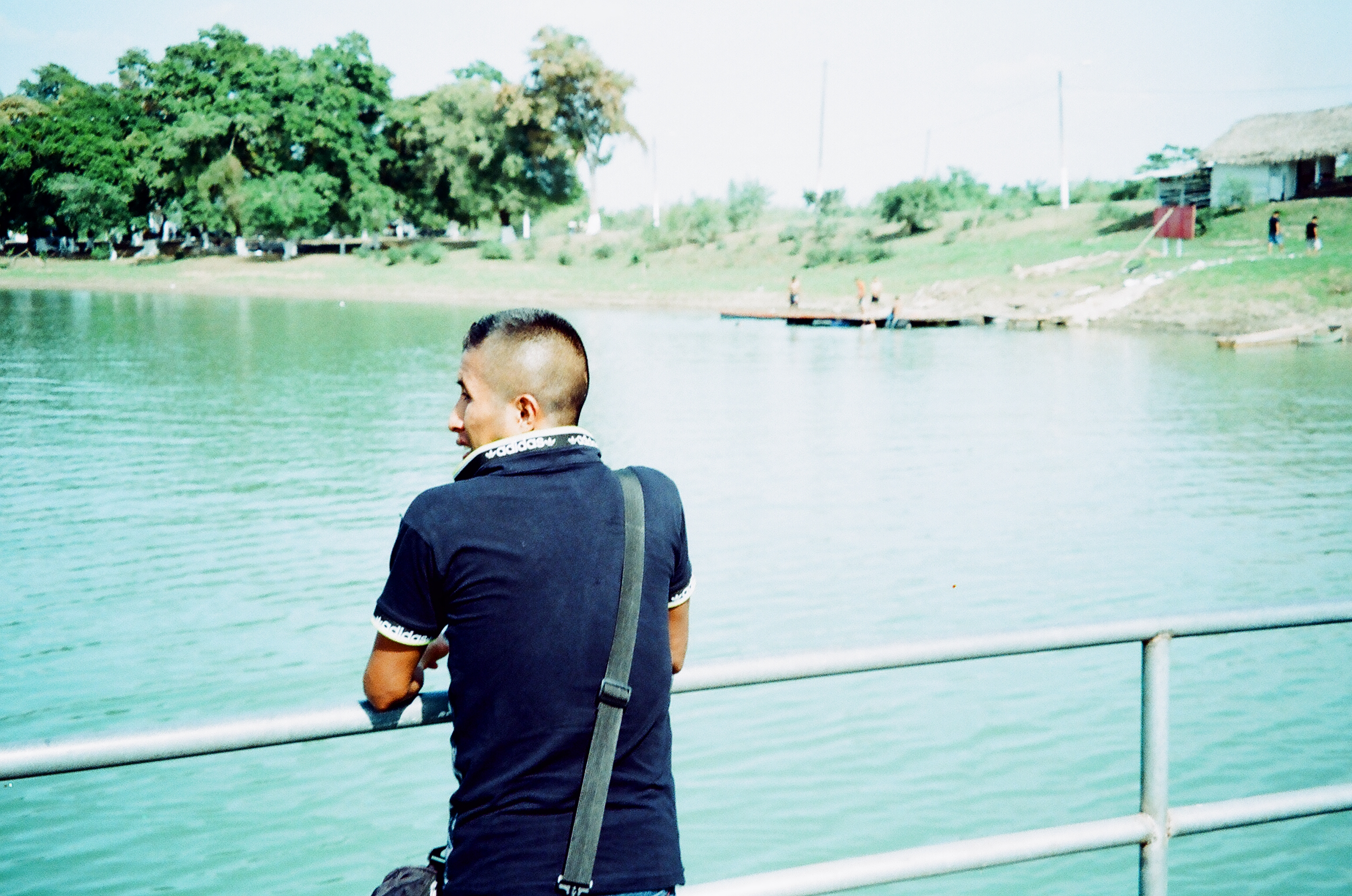 Sayaxché's Ferry